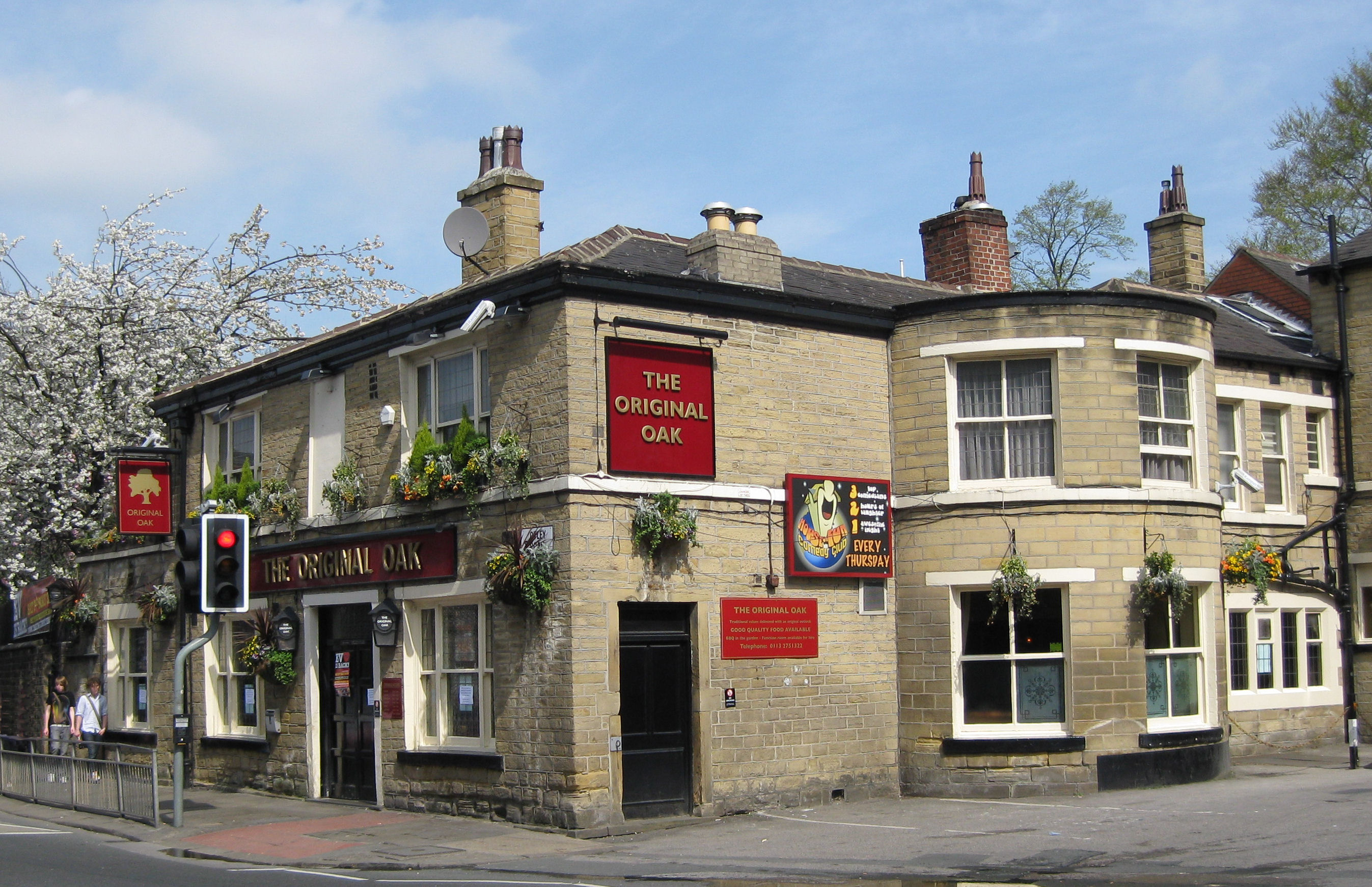 Original Oak pub, 2 Otley Road, Headingley, Leeds, LS6 2DG